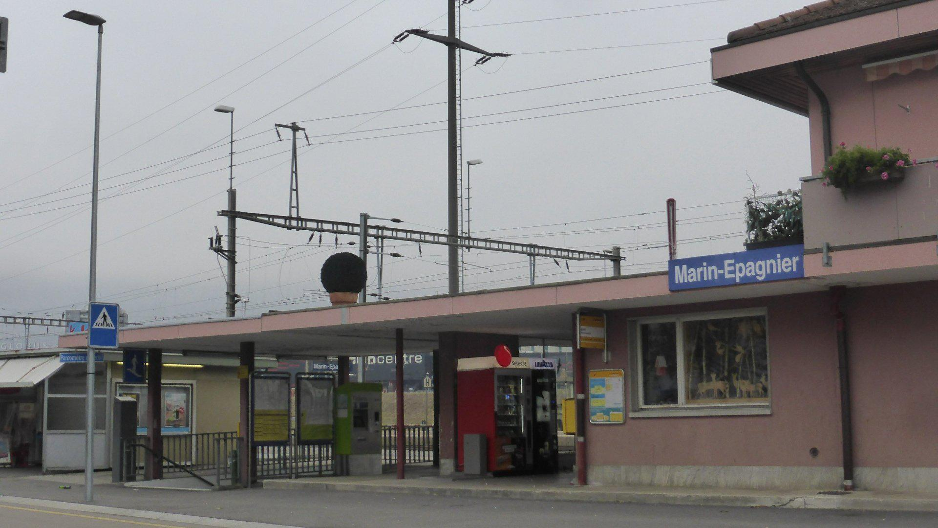 Marin-Epagnier railway station in La Tène, Neuchâtel, Switzerland.